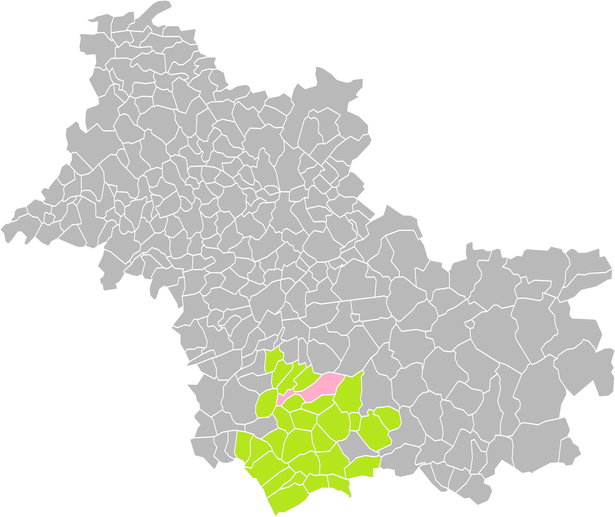 Location of the commune of Contres in the Communauté de communes Val de Cher - Controis (Loir-et-Cher)